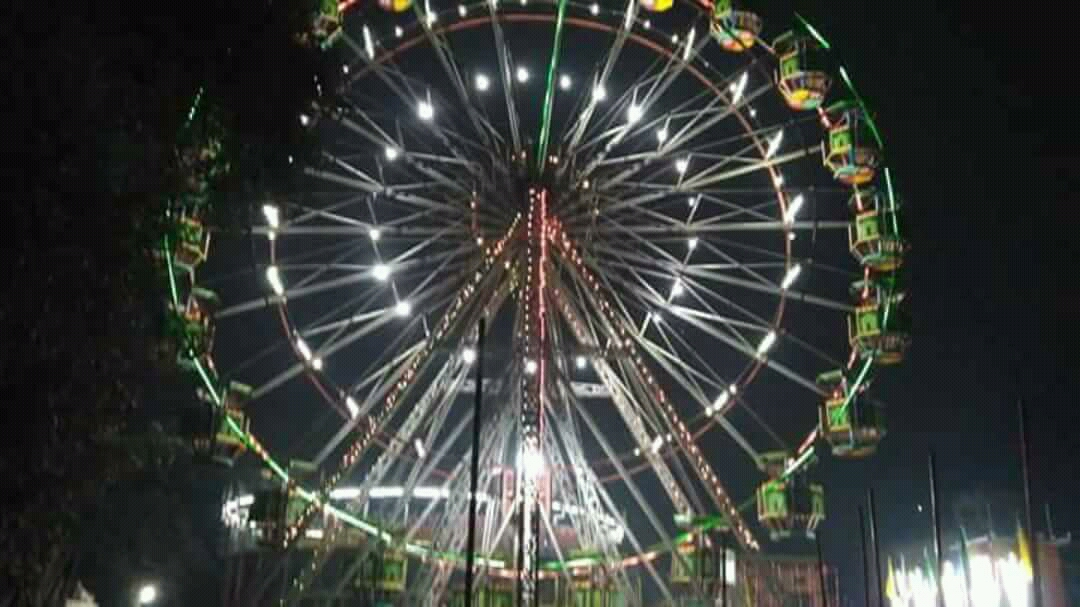 Uttrayani 2018 01